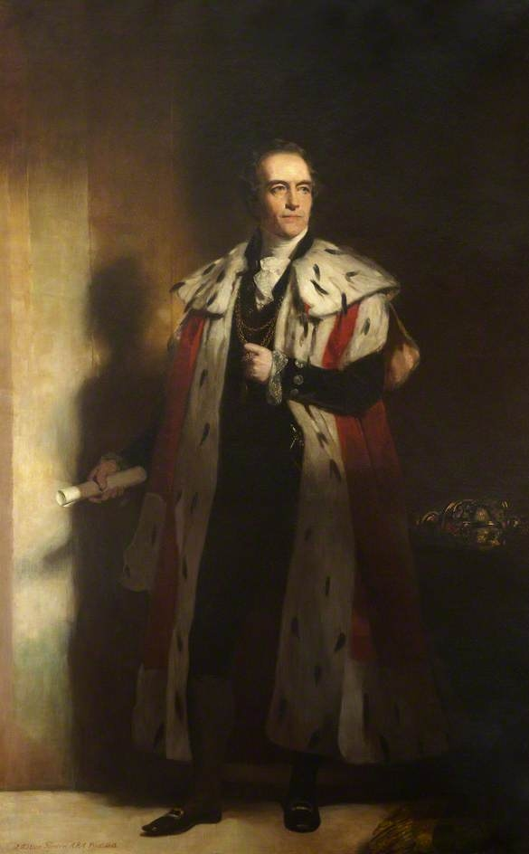 Portrait of Adam Black (1784–1874), Lord Provost of Edinburgh (1843–1848). Painted by John Watson Gordon.